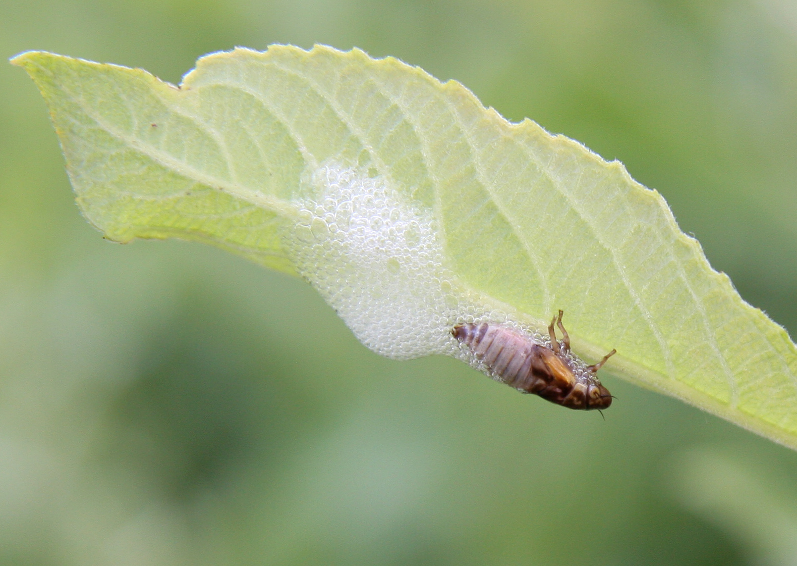 Froghopper (spittlebug) nymph with froth partially removed. No clue about the species; adults of several were present in the area.